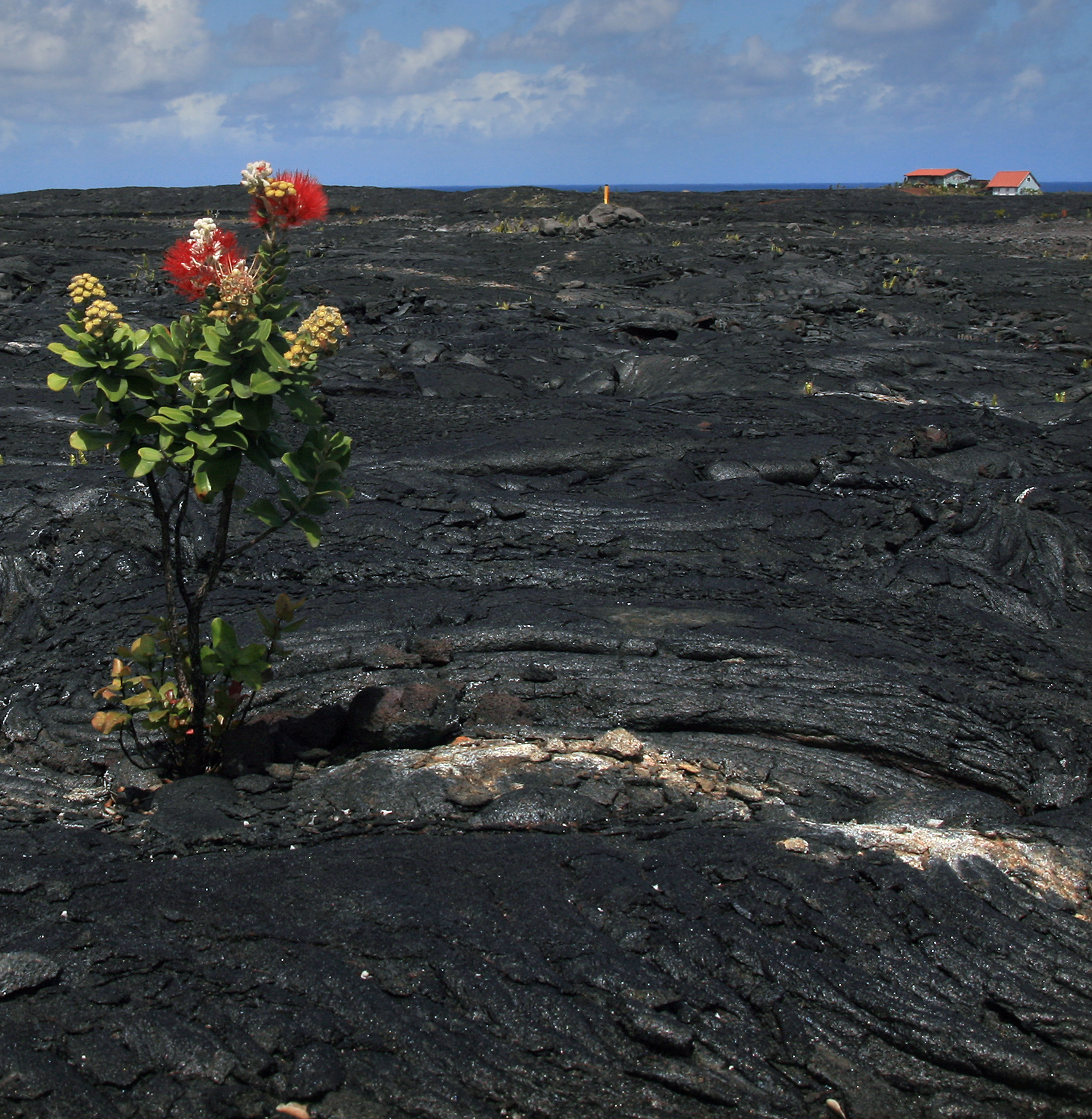 A specimen of Metrosideros polymorpha, a flowering tree endemic to the Hawaiian archipelago, colonizes a more-than thirty year old pahoehoe lava flow from Kilauea at Kalapana, Hawai'i. This plant depicted may have since been destroyed—the area was partially re-covered by fresh flows in 2010.